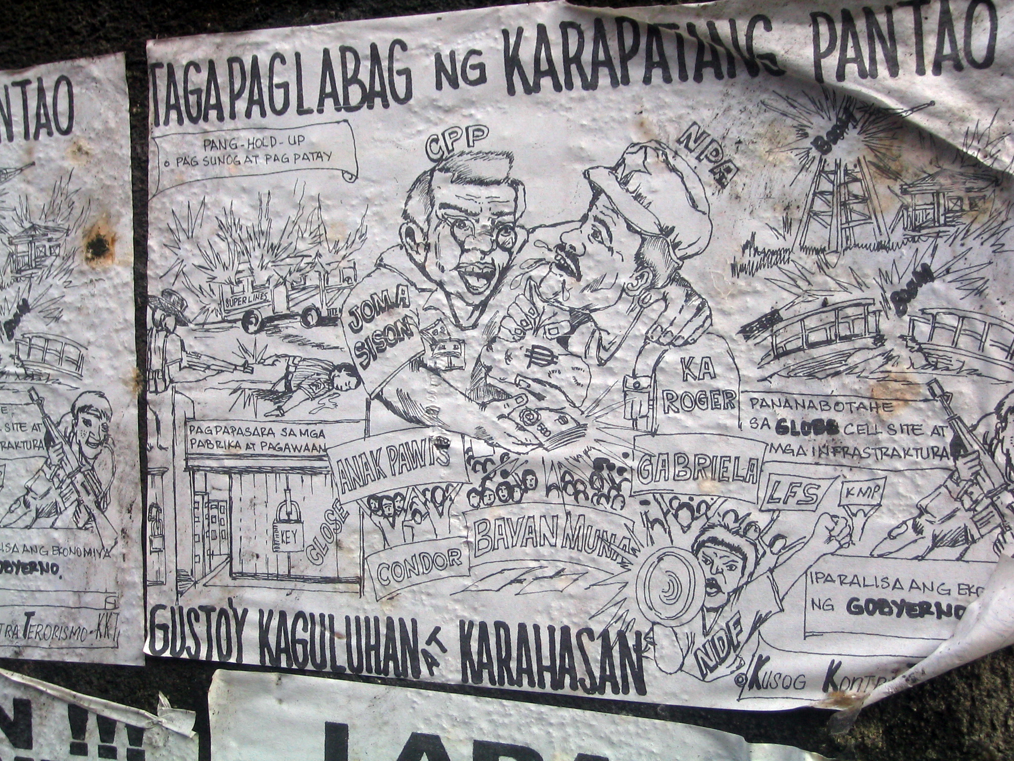 A Poster describing the political situation in the Philippines. CPP is offering NPA money.